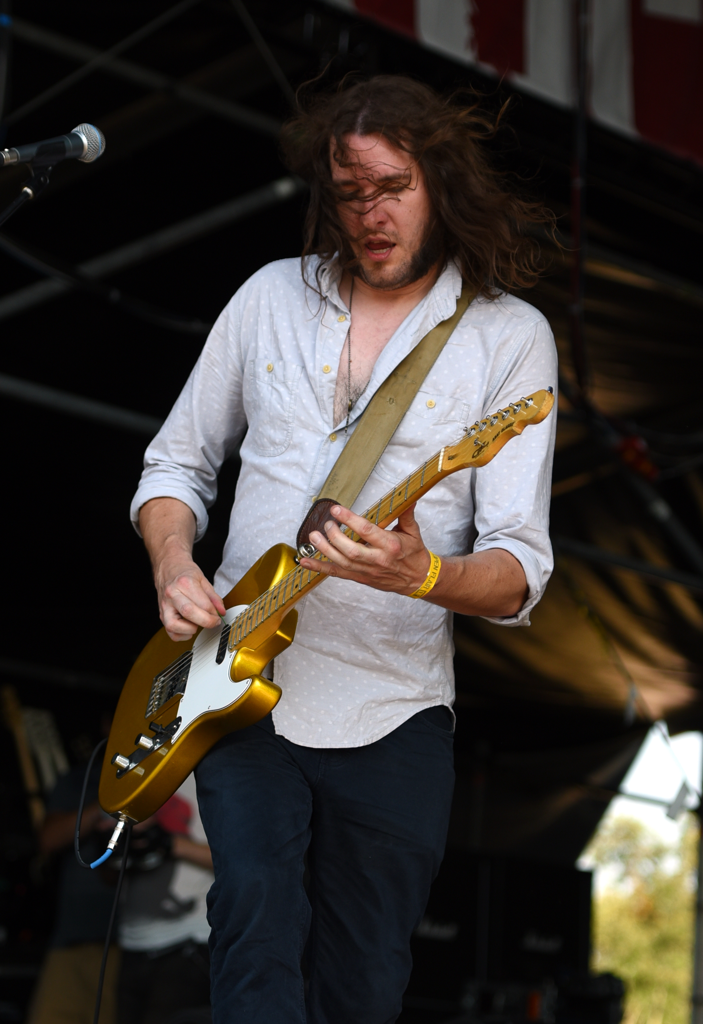 Andy Frasco & the U.N. at the Open Flair festival in Eschwege, Germany